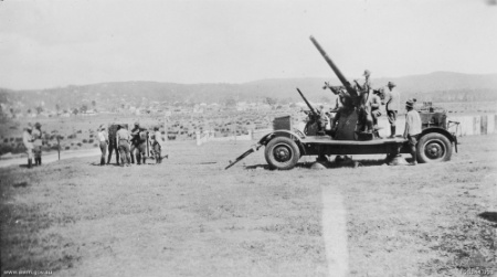 AWM caption : "Australia: New South Wales, Narrabeen. A pair of trailer mounted three inch, 20 CWT anti aircraft guns of the 1st Anti Aircraft Battery, deployed with their crews for an exercise on a range at North Narrabeen, NSW. The cluster of soldiers (left) are operating a Vickers made predictor which provides the gun crews with target information".